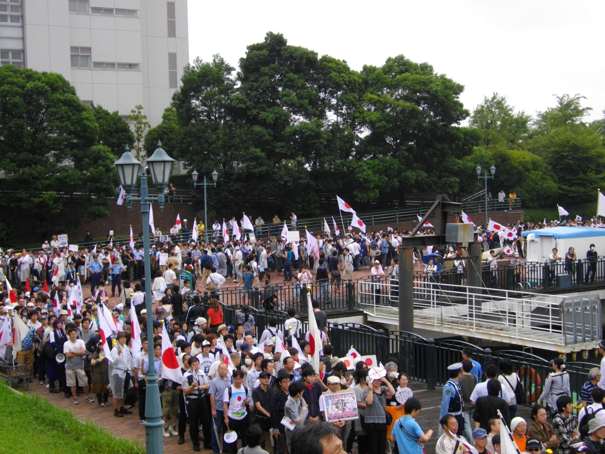 Anti-Fuji Television rally on 21 August 2011 at Odaiba